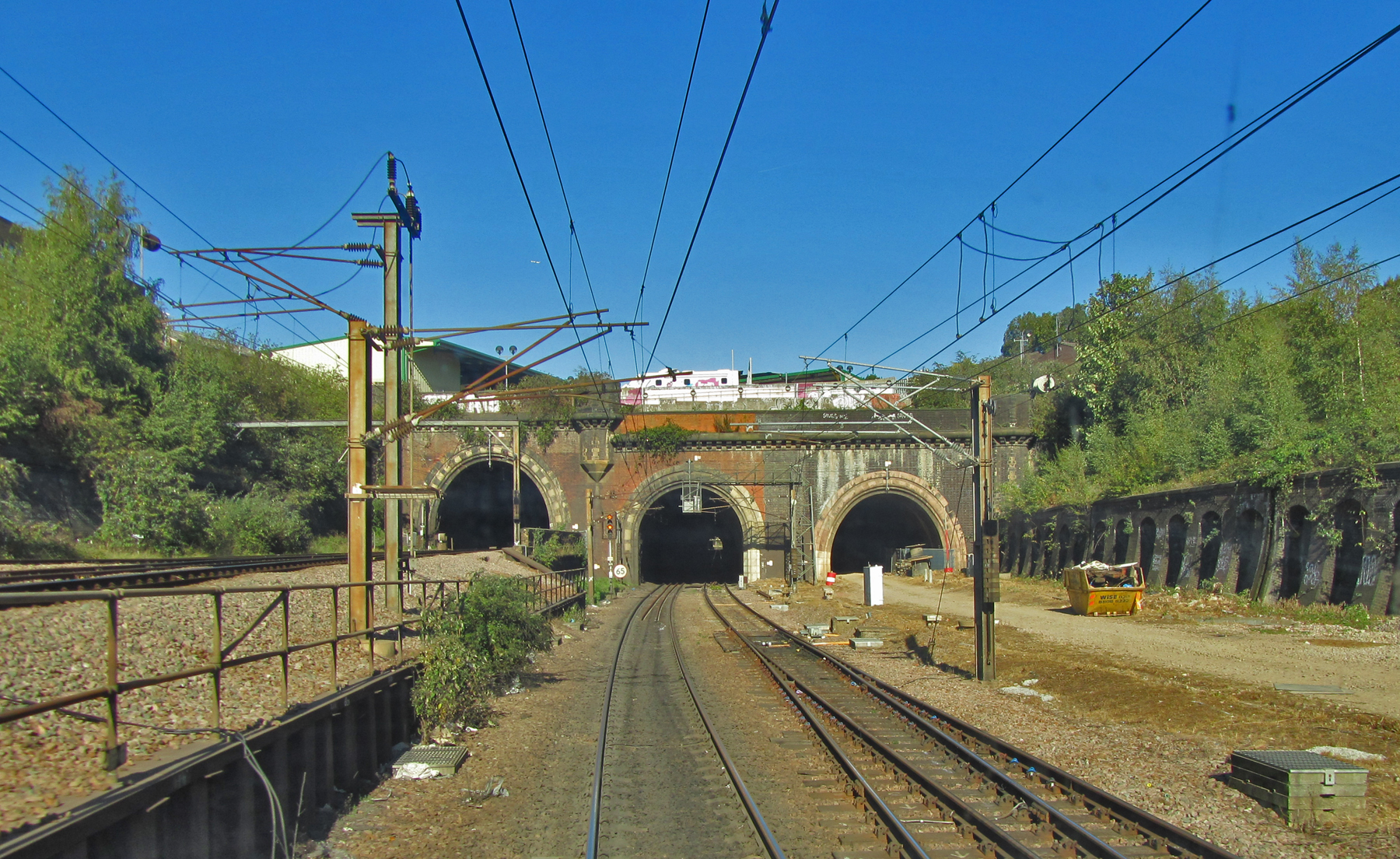 Looking towards the south portals of Copenhagen tunnel from the Down Fast Line at Belle Isle